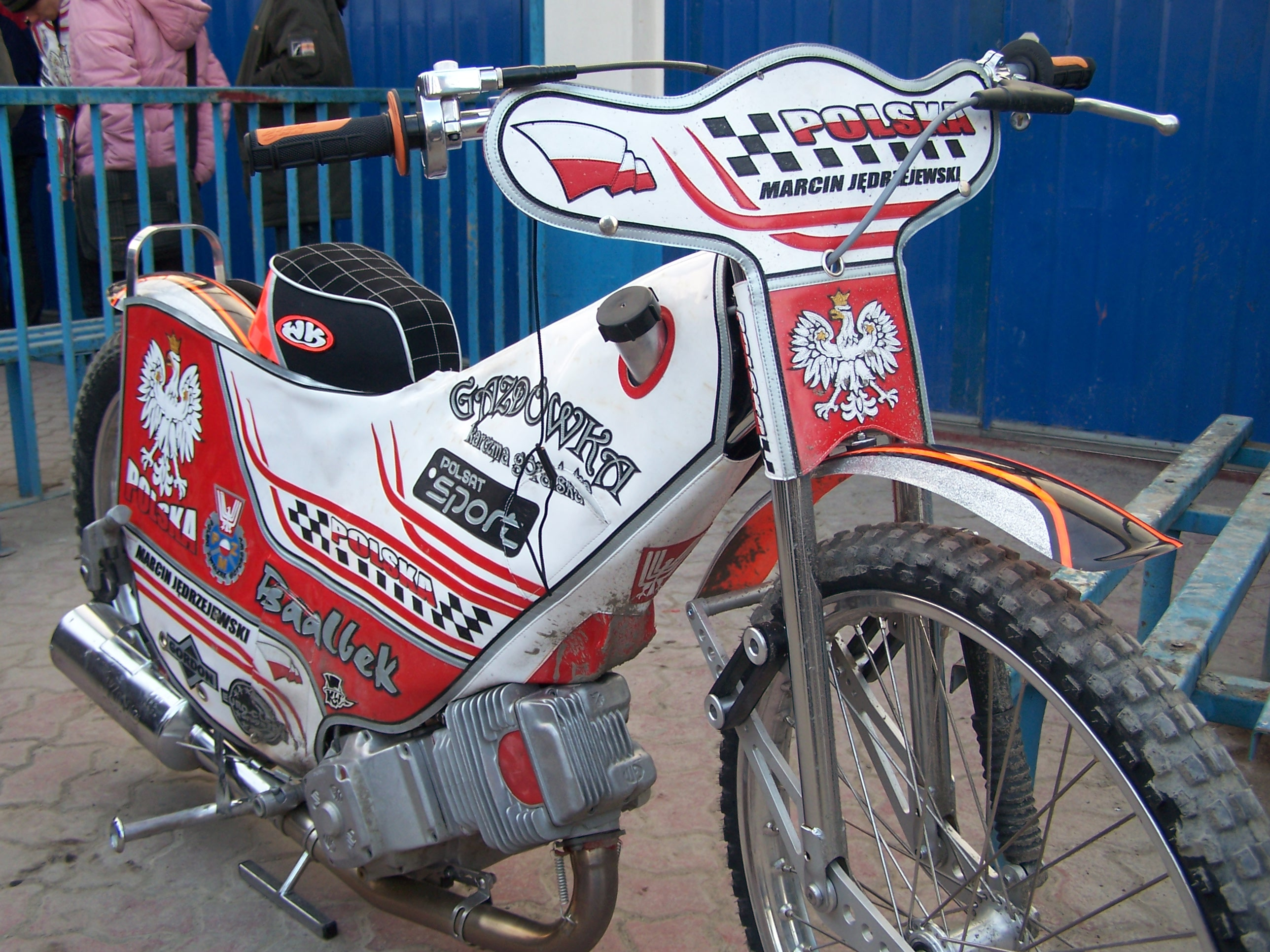 motorcyce speedway